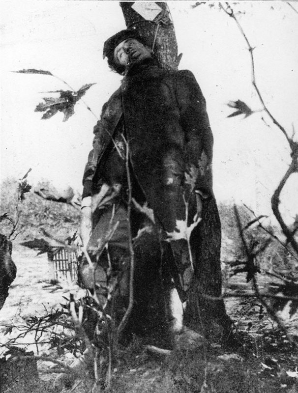 Yanis Pitsulas, greek revolutionary, hanged on three near Gumendzhe or Gumenitsa